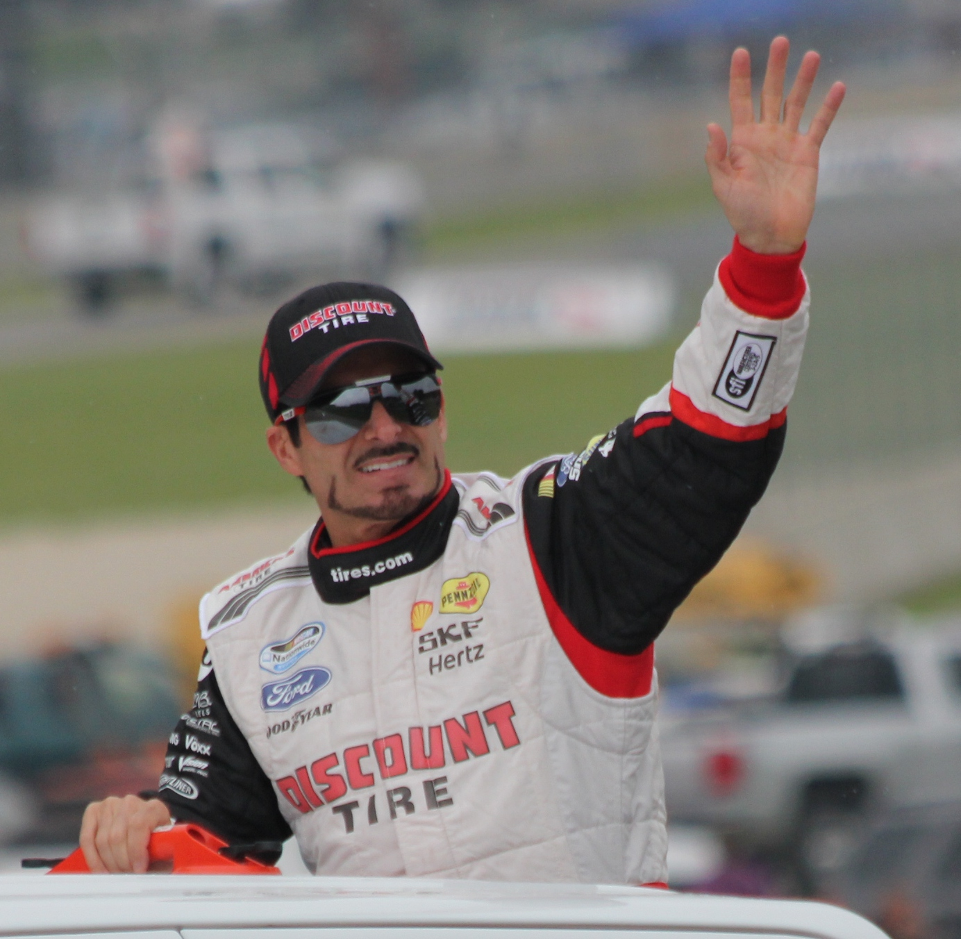 NASCAR Nationwide Series driver Alex Tagliani waves to the crowd at the 2014 Gardner Denver 200 event at Road America.